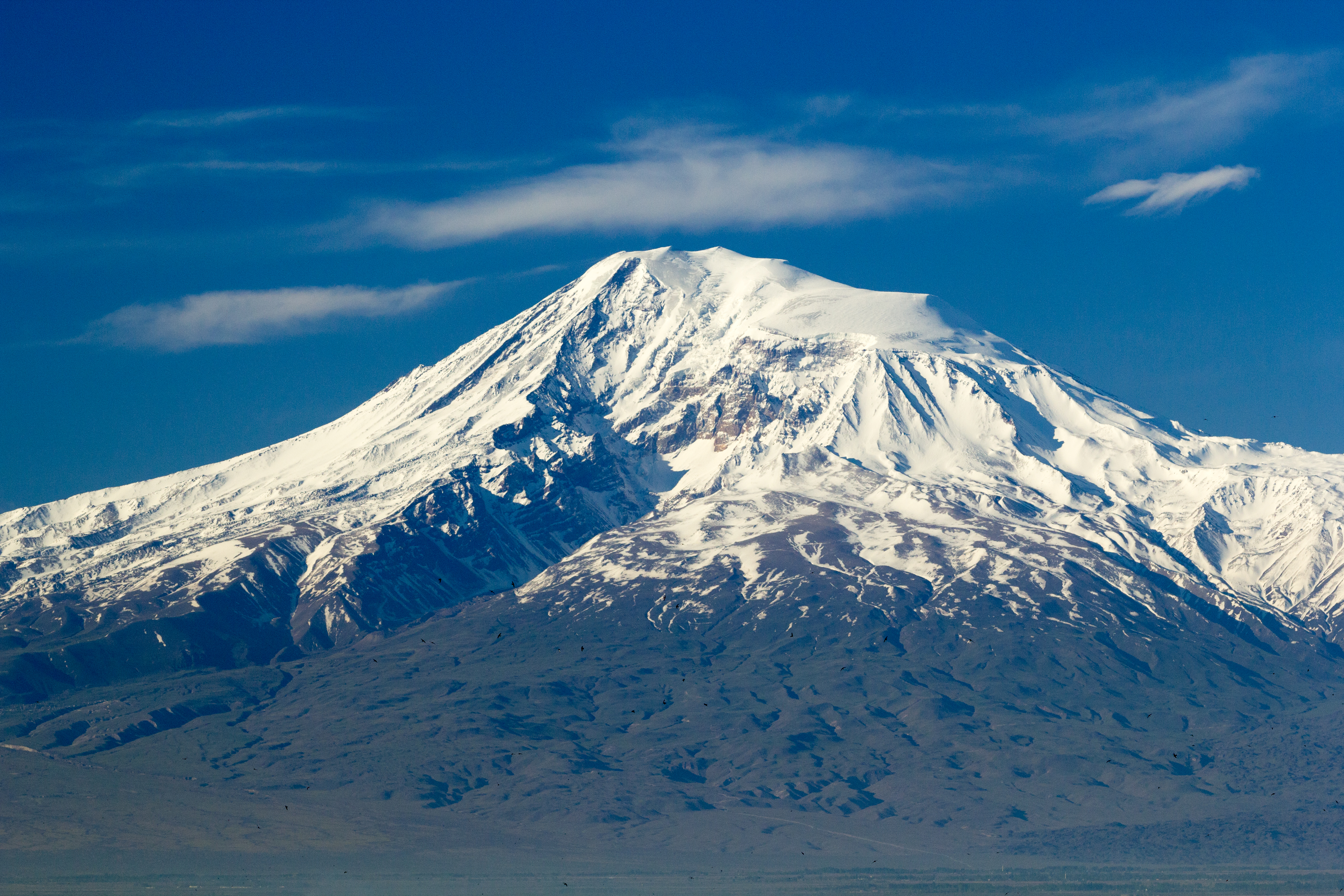 Closeup of the large peak of Mount Ararat, as viewed from Yerevan, the capital of Armenia.